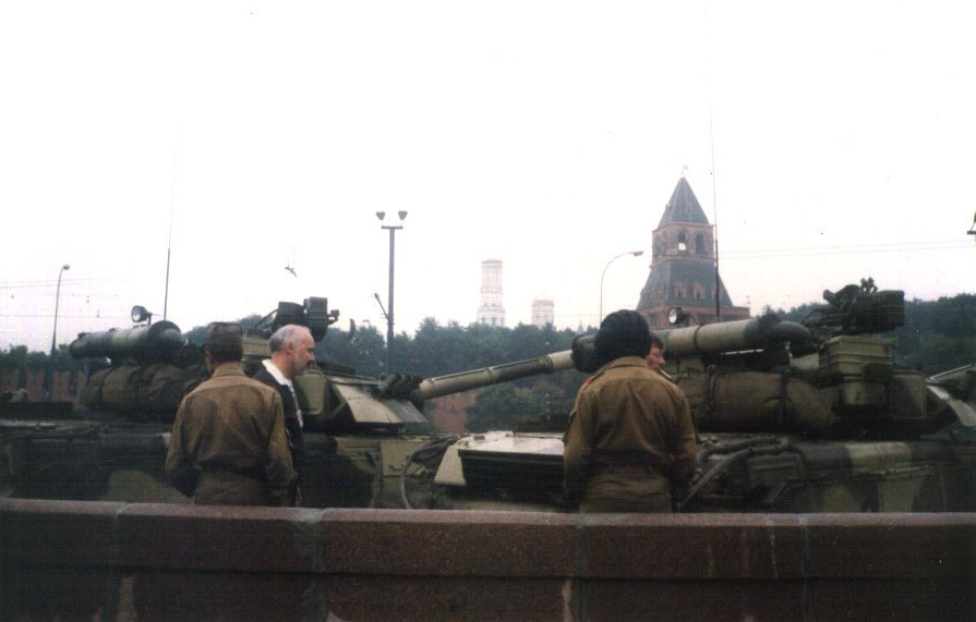 T-80UD tanks in the 1991 coup attempt. Location: Northern ramp of Bolshoy Moskvoretsky Bridge (not exactly Red Square, some 200 meters south from its formal southern edge, with Constantine-and-Helena tower in sight)